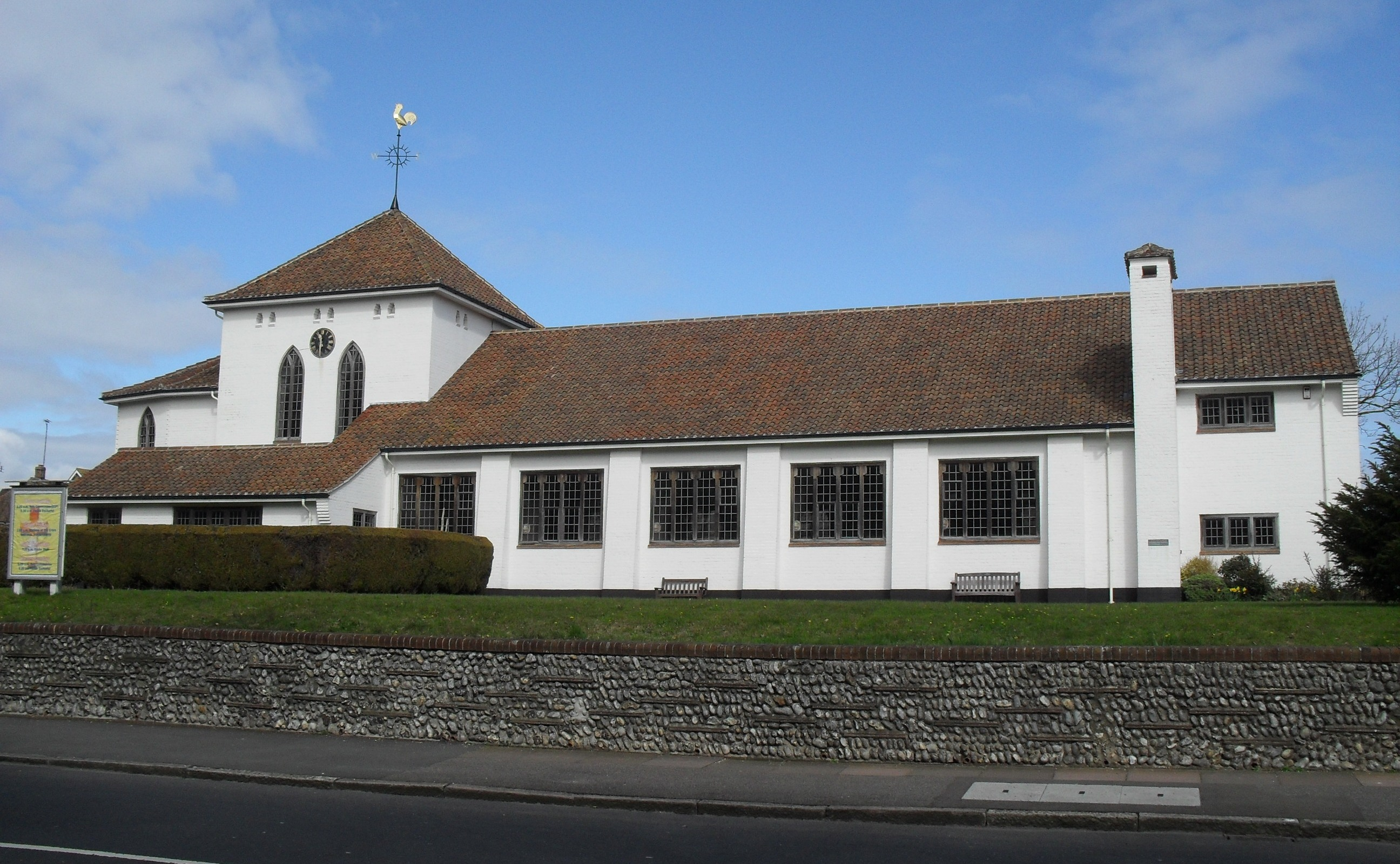 St Mary's Church, Decoy Drive, Hampden Park, Eastbourne, East Sussex, England. Rebuilt in 1952–54 by Sir Edward Maufe after the original church was damaged by World War II bombing. Listed at Grade II by English Heritage (IoE Code 470628)